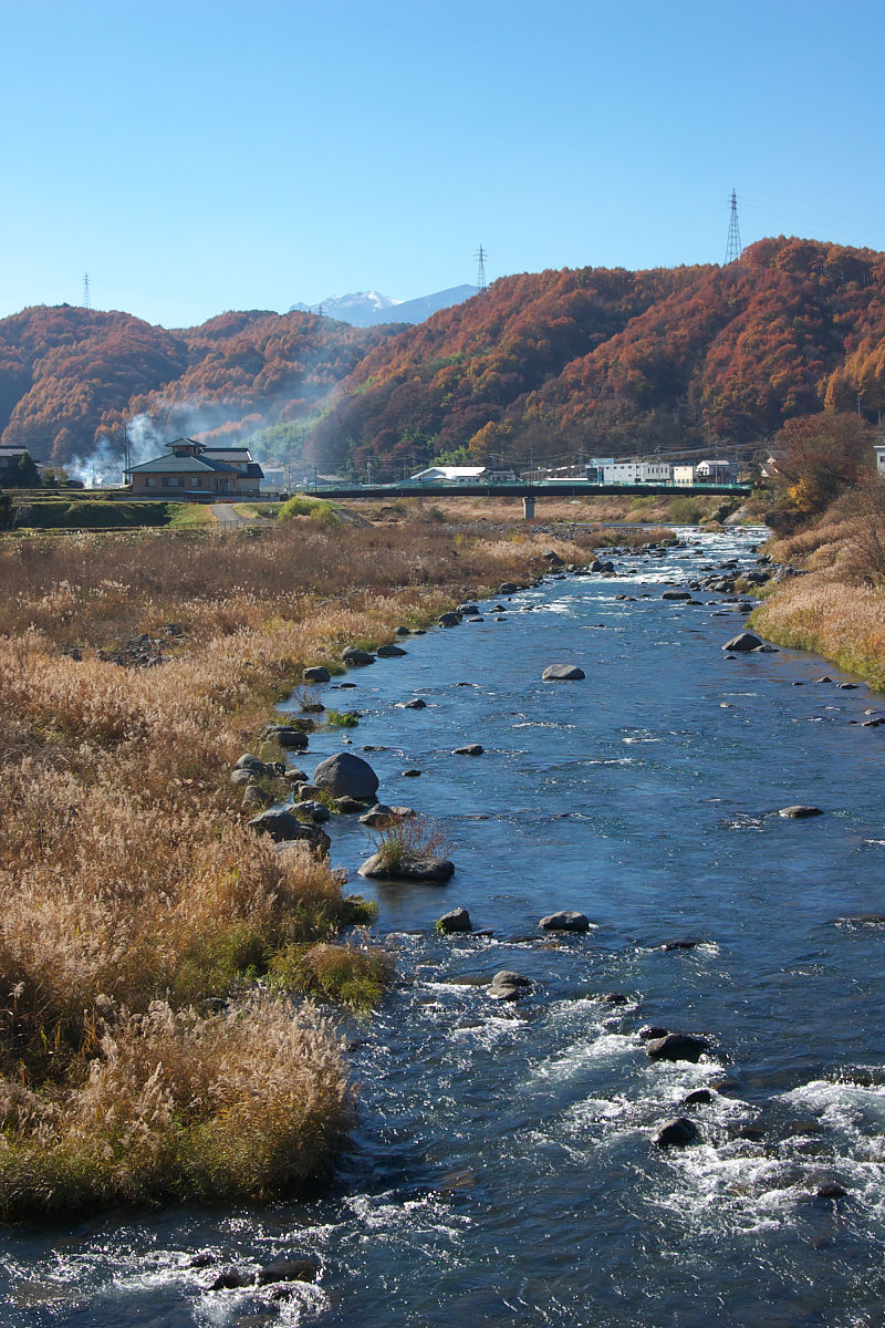 River Chikuma and Mt. Yatsugatake at Sakuho, Nagano.